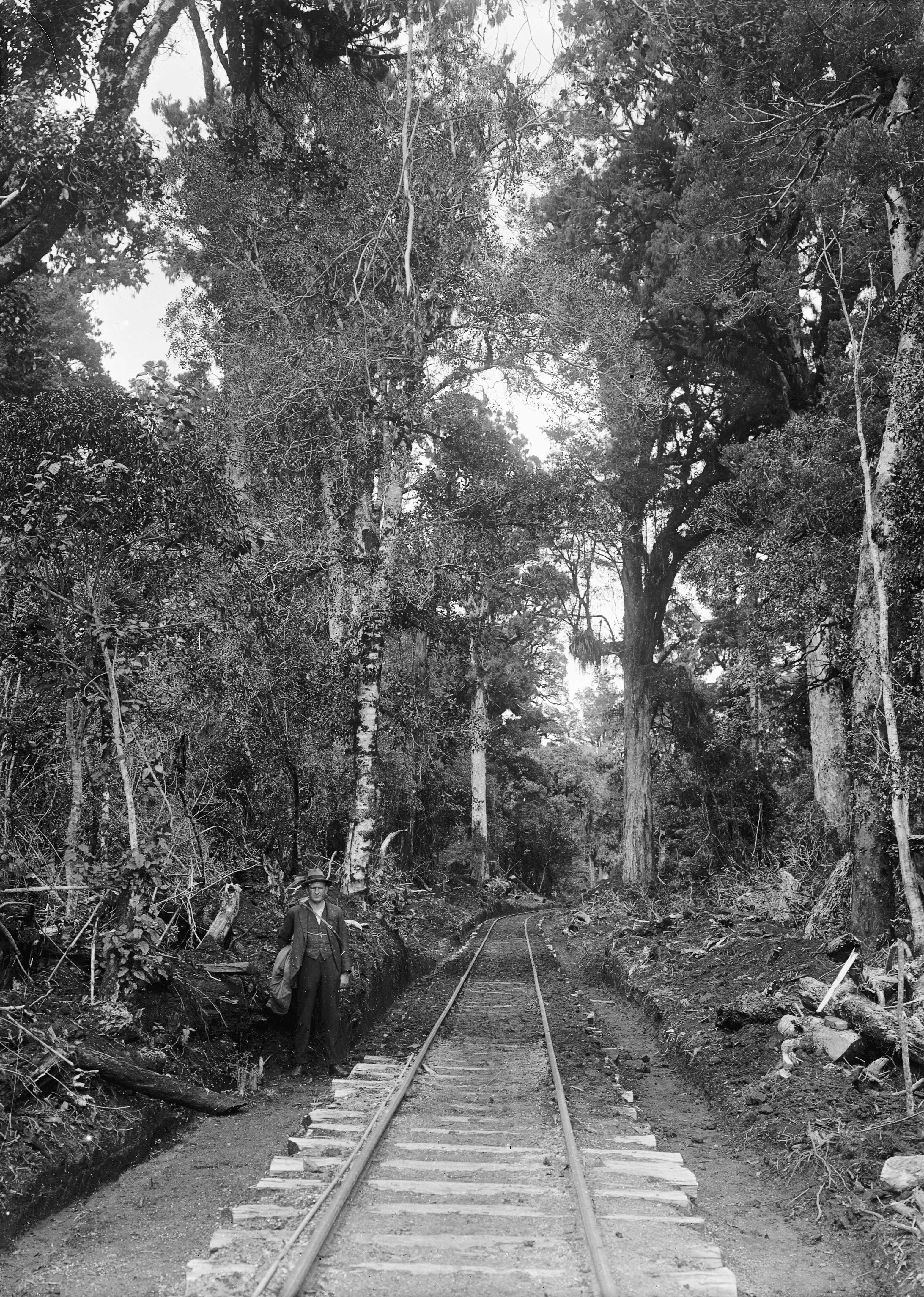 Bush railway line through native bush at Erua, circa 1920s. Man unidentified. Photograph taken by Albert Percy Godber.